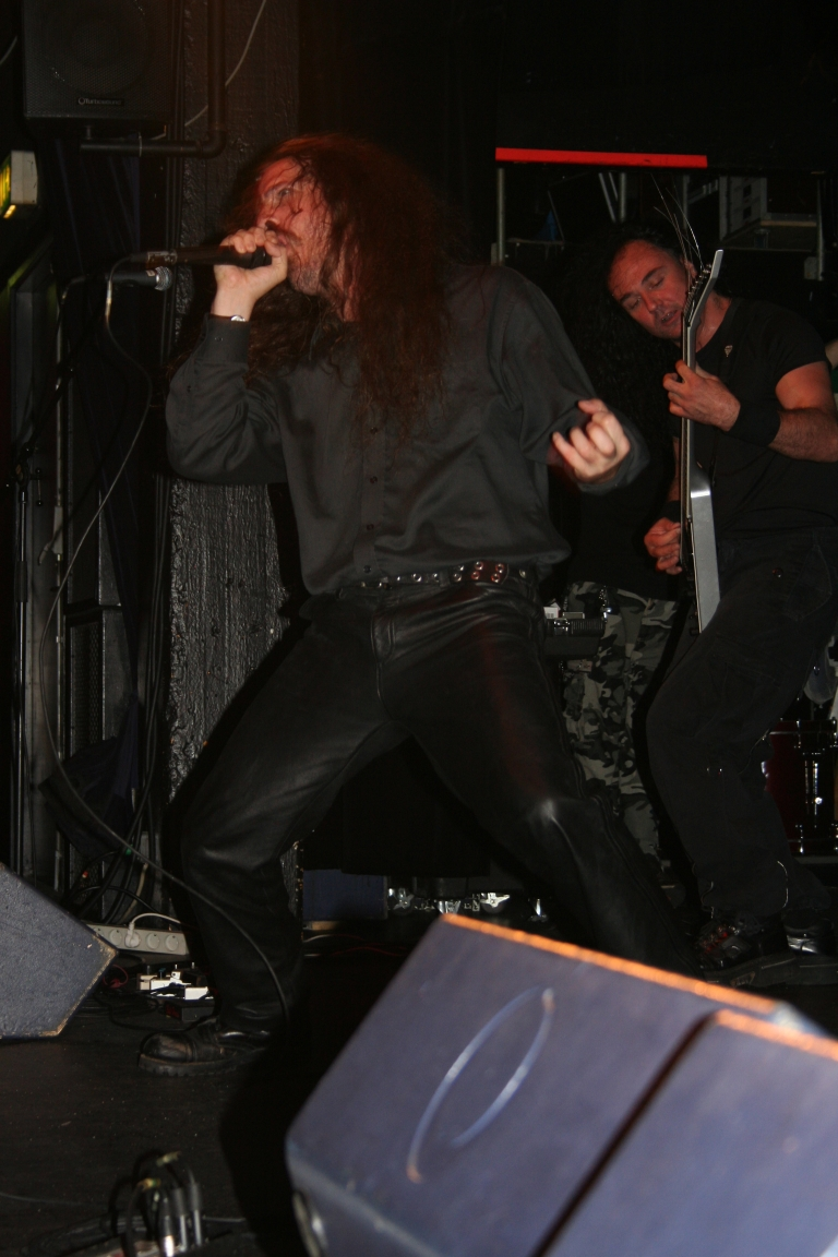 Lord Worm of Cryptopsy during a concert in Århus, Denmark. The image is cropped and scaled.